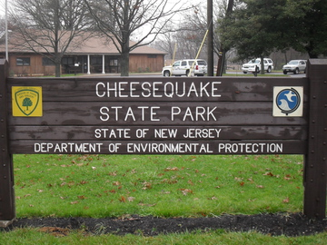 Entrance sign leading into Cheesequake Park